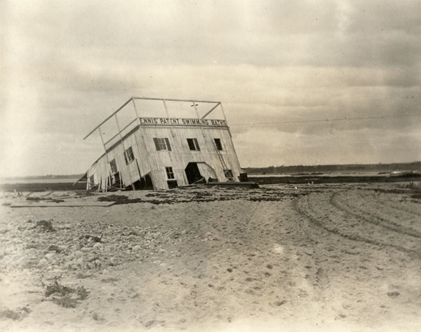 Wreck of Ennis' Patent Swimming Baths, Shippan Point, Stamford, Connecticut.